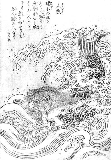 Ningyo (人魚, a fish person or "mermaid") from the Konjaku Hyakki Shūi (今昔百鬼拾遺)